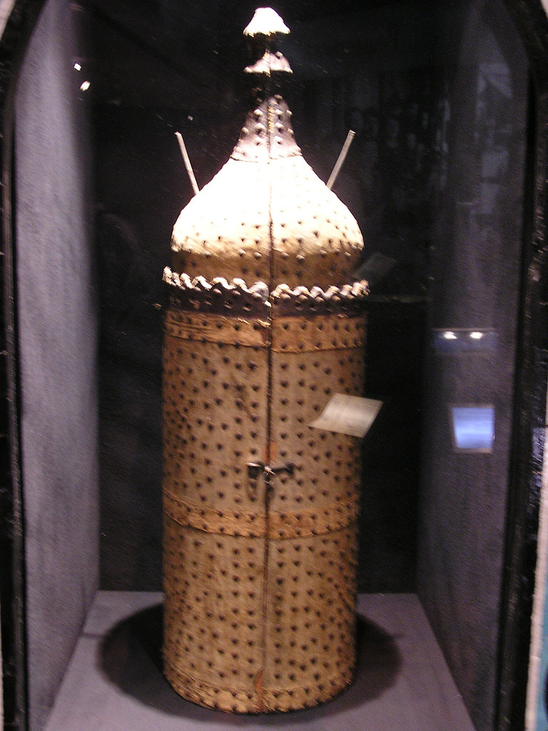 Torah Case Iraq, 1918/19 Wood; velvet; leather; brass; iron; glass; gouache on paper Height: 34 5/16 in. (87.1 cm) Diameter: 10 3/8 in. (26.3 cm) The Jewish Museum, New York Gift of the Bevis Marks Synagogue, JM 28-56 Wikipedia Loves Art at the Jewish Museum (New York City) This photo of item # JM-28-56 at the Jewish Museum (New York City) was contributed under the team name "team_coi" as part of the Wikipedia Loves Art project in February 2009. Jewish Museum (New York City) The original photograph on Flickr was taken by Pharos1—please add a comment to the original Flickr page whenever a use has been made on Wikipedia or another project. Project galleries on Flickr: this institution, this team